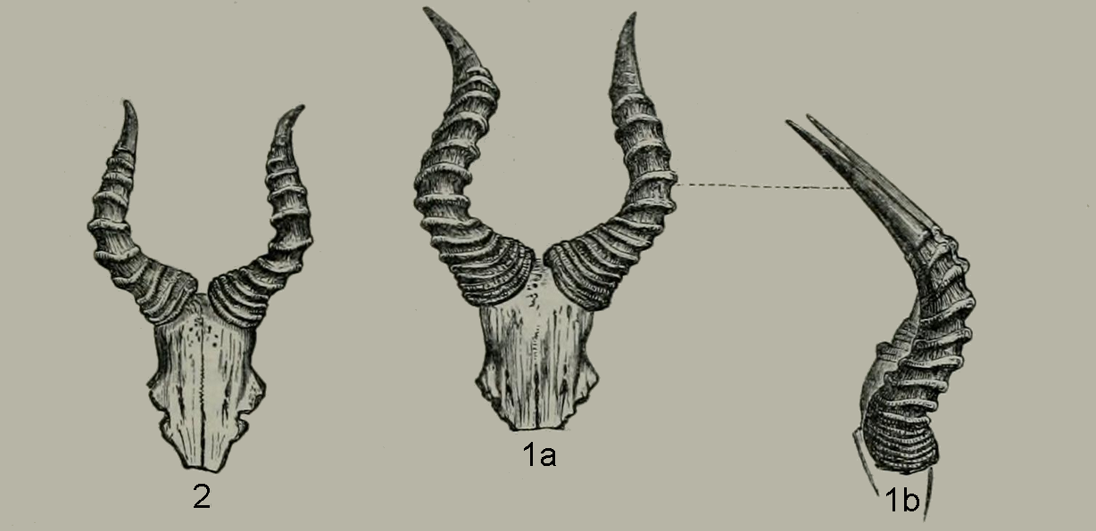 Frontlets of the Western hartebeest (Alcelaphus major), published in the species description by Edward Blyth 1869